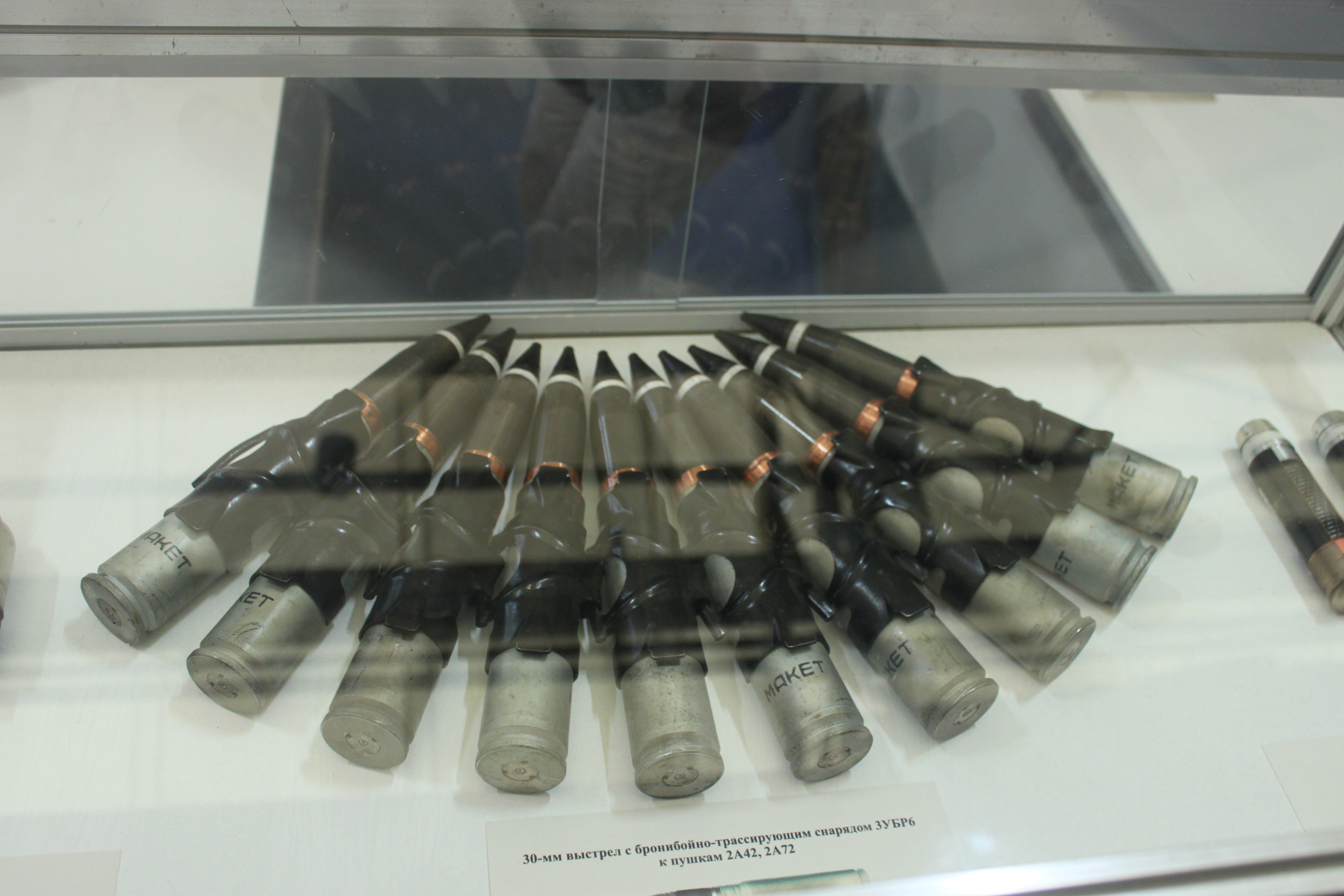 Patriot Park in Kubinka.